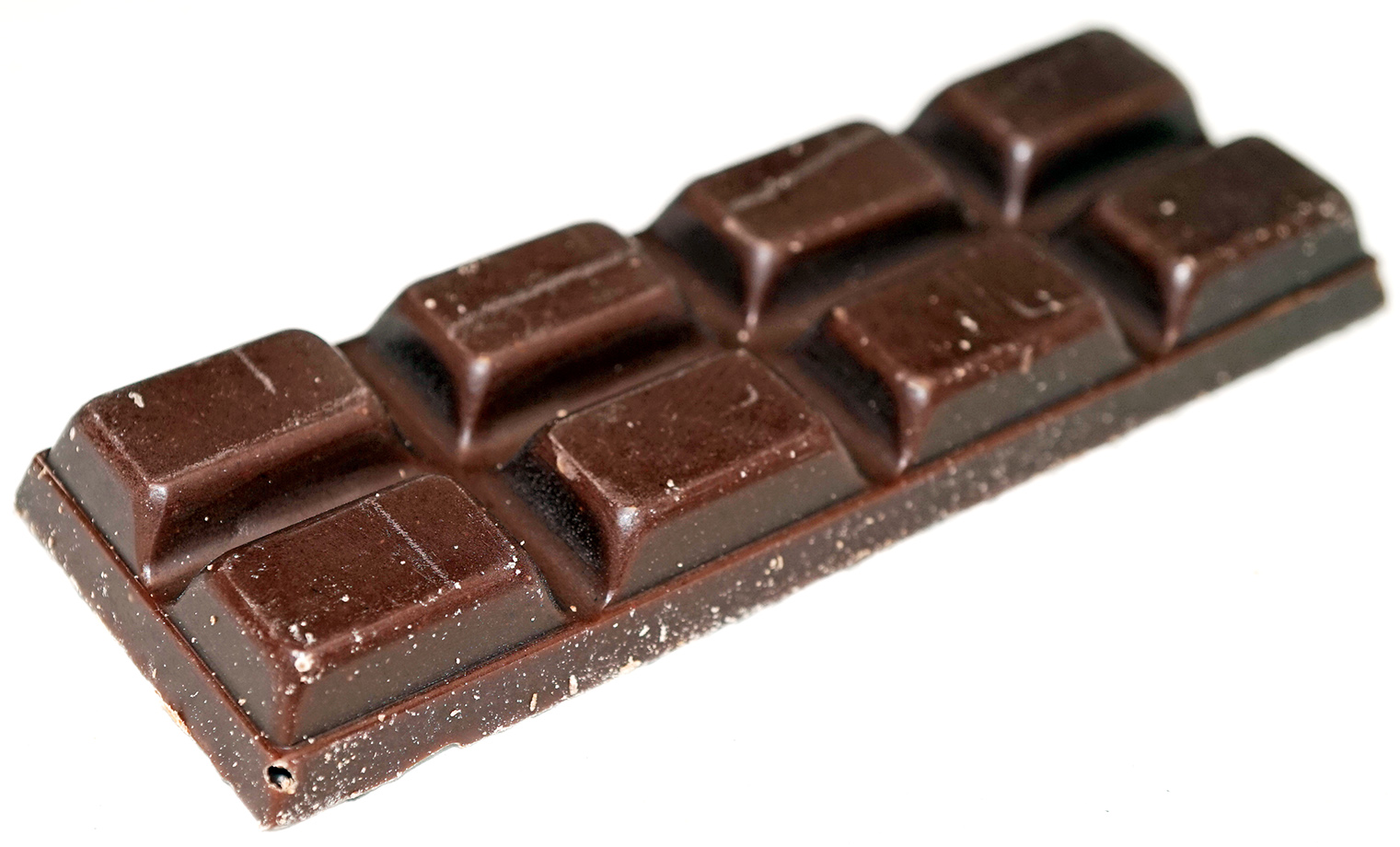 Raw Chocolate 46 % "SuperChoco" by Cocovi. The weight is 23 grams.